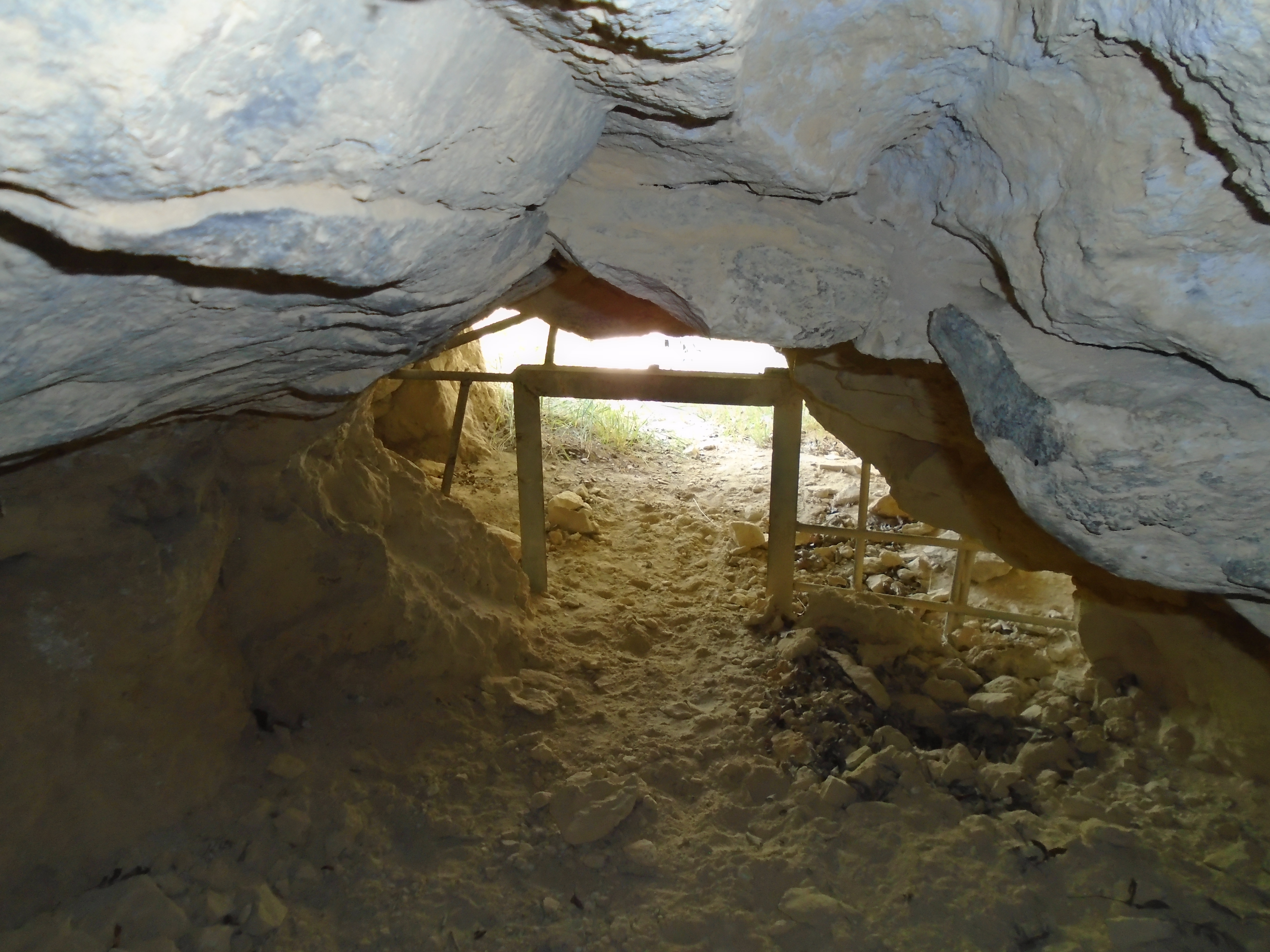 Entrance of Keleti quarry No 7 Cave.